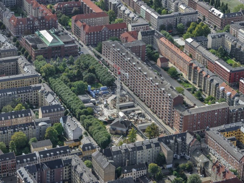 October 2015 air photo of the City Circle Line being built, part of the Copenhagen Metro. I got the following permission to use these images from kjeld madsen on 2015-10-18: Dragør Luftfoto ApS frigiver hermed billederne i galleriet under licensen Creative Commons Attribution ShareAlike 3.0 license.